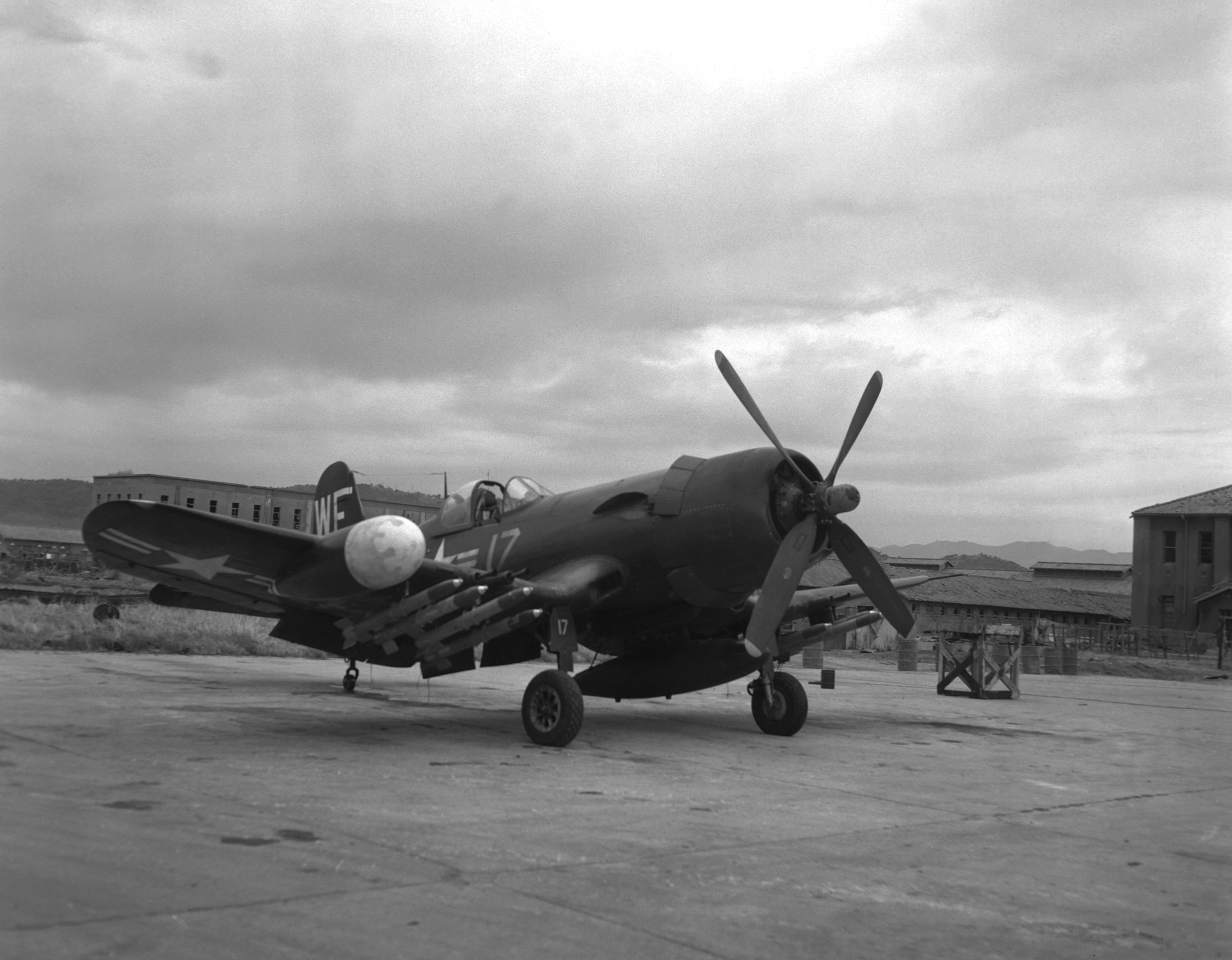 A U.S. Marine Corps Vought F4U-5N Corsair night fighter of Marine night fighter squadron VMF(N)-513 Flying Nightmares on the flight line at Wonsan, Korea, on 2 November 1950.